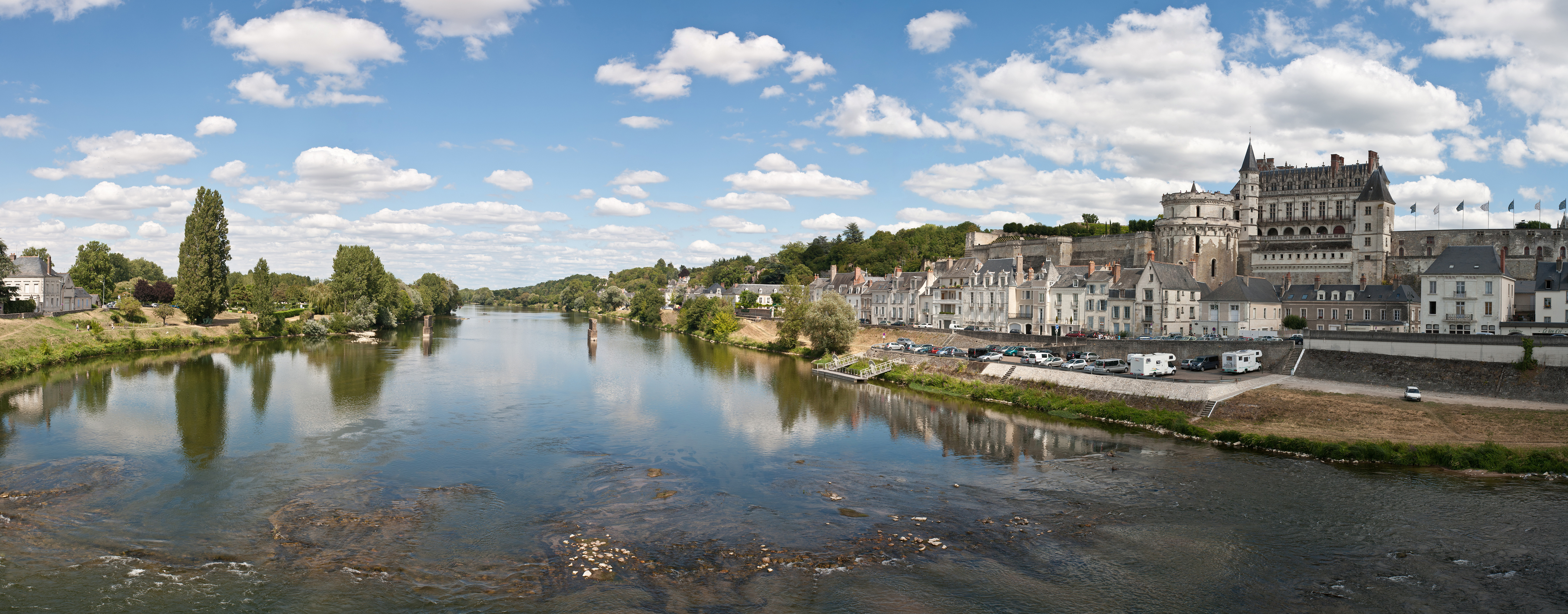 A five segment panoramic view of the Loire River at Amboise, France.